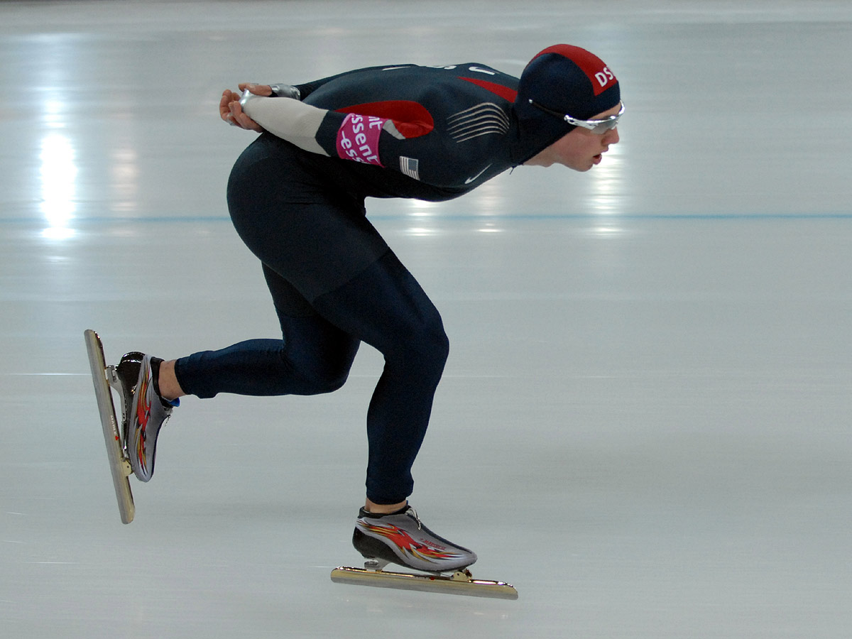 Trevor Marsicano at the World Allround Championships in Hamar 2009